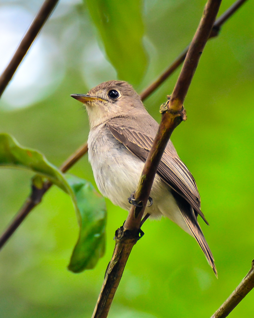 Asian Brown Flycatcher (Muscicapa dauurica) at Periyar National Park, Gavi, Kerala, India